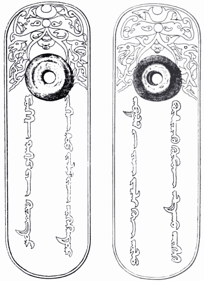 Paiza found in the former lands of the Golden Horde (Dniepr River, 1845)